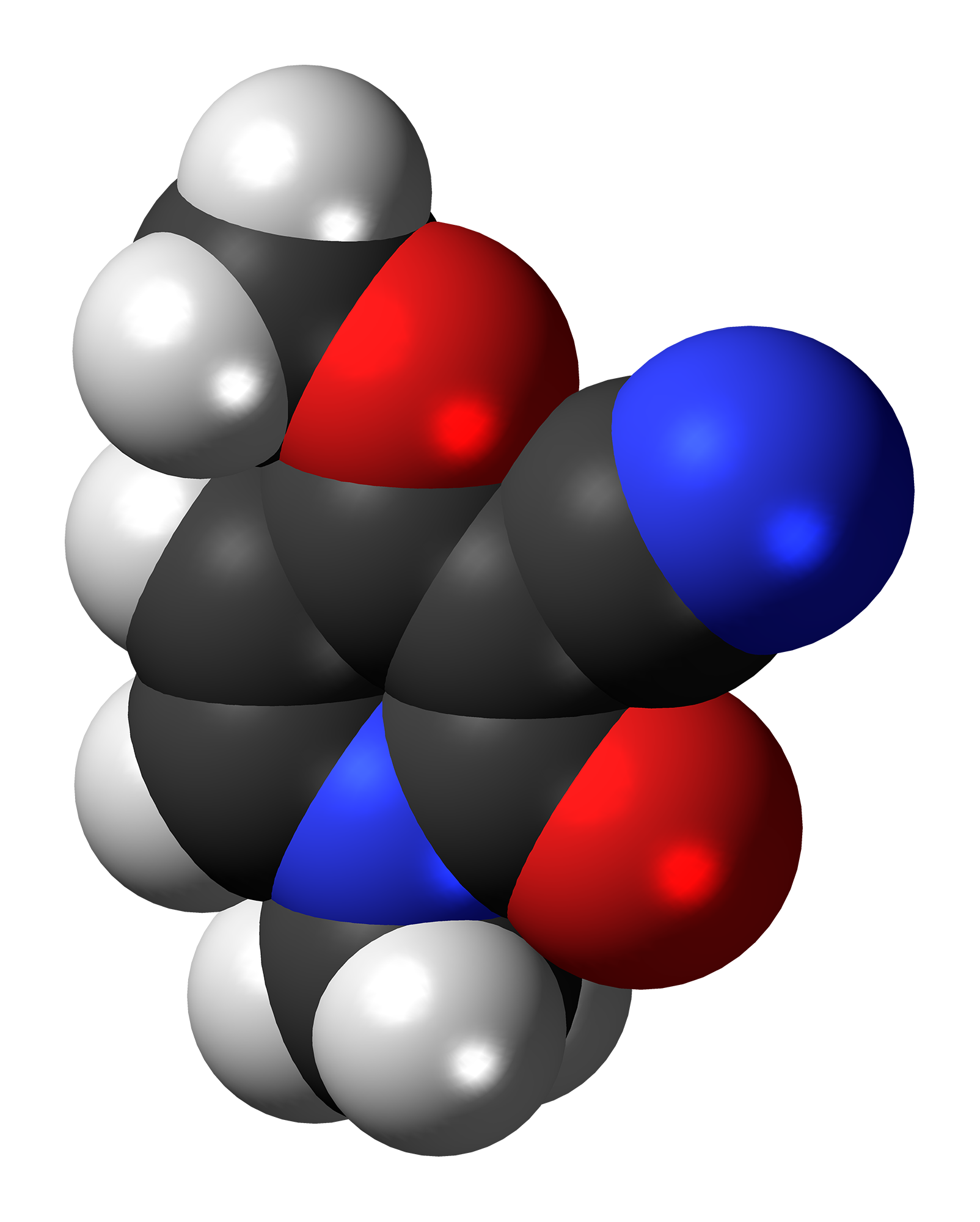 Space-filling model of the ricinine molecule, a pyridine alkaloid. Color code: Carbon, C: black Hydrogen, H: white Oxygen, O: red Nitrogen, N: blue